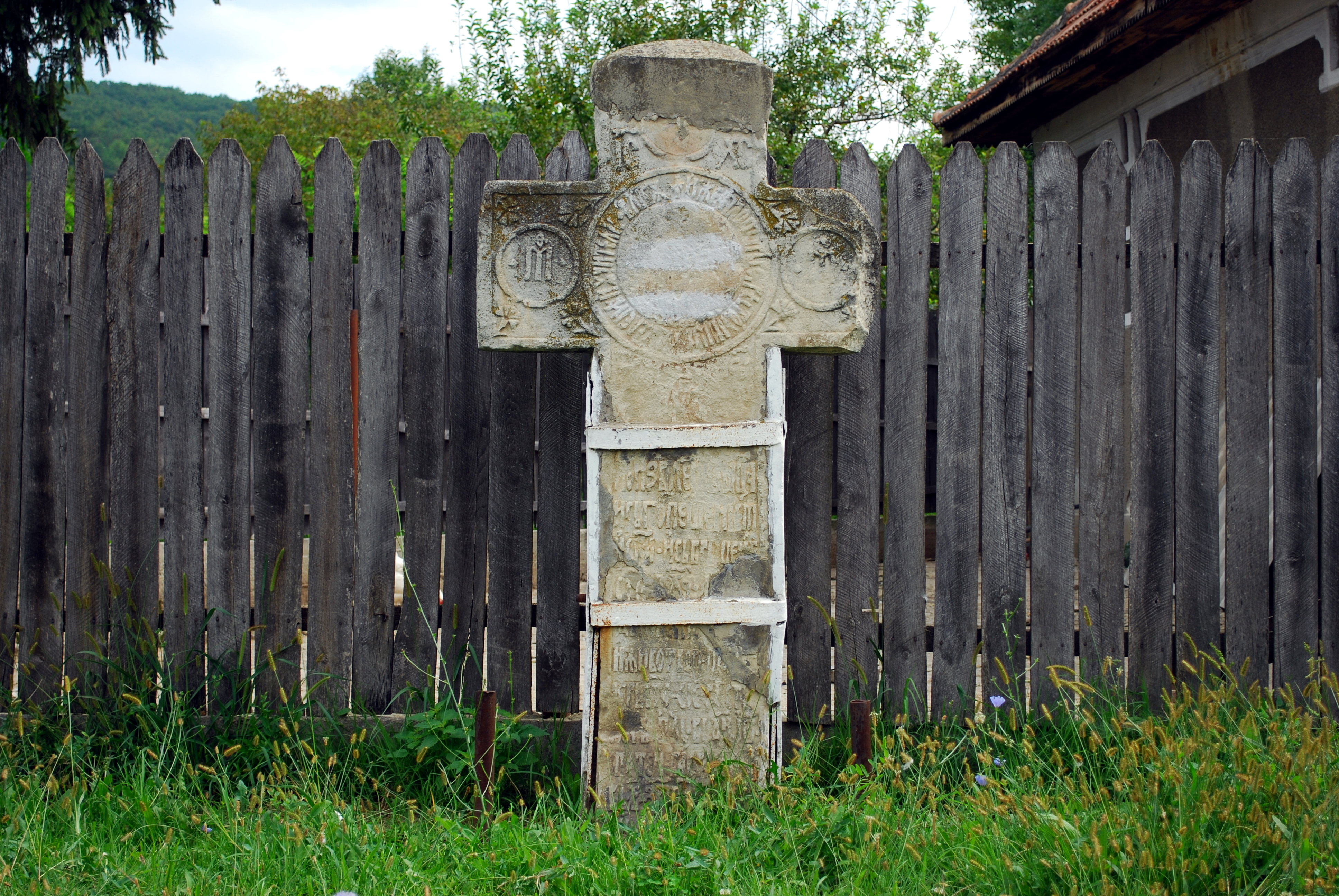 Stone cross in Gheboieni, Dâmbovița County, RomaniaRomână: Crucea de piatră de la „Bolbocea” din Gheboieni, județul Dâmbovița, România